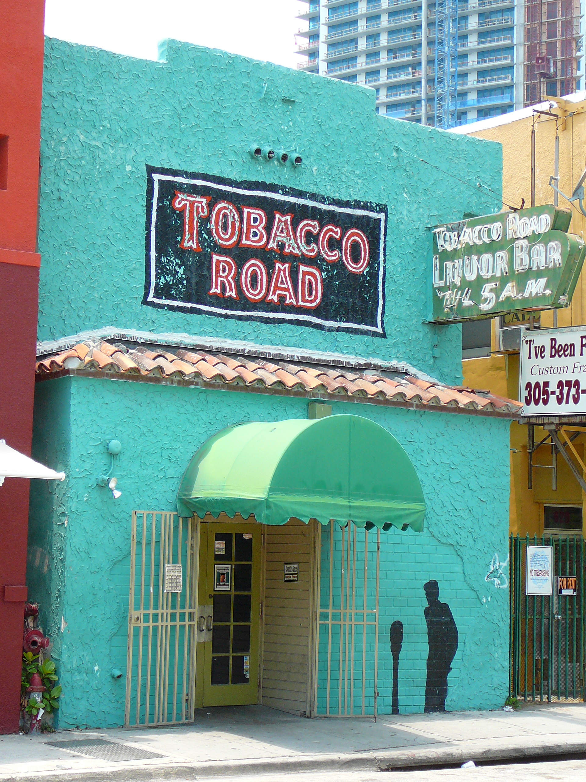 Digital photo taken by Marc Averette. The Tobacco Road (bar) in downtown Miami. The oldest bar in the city. 5/14/2008